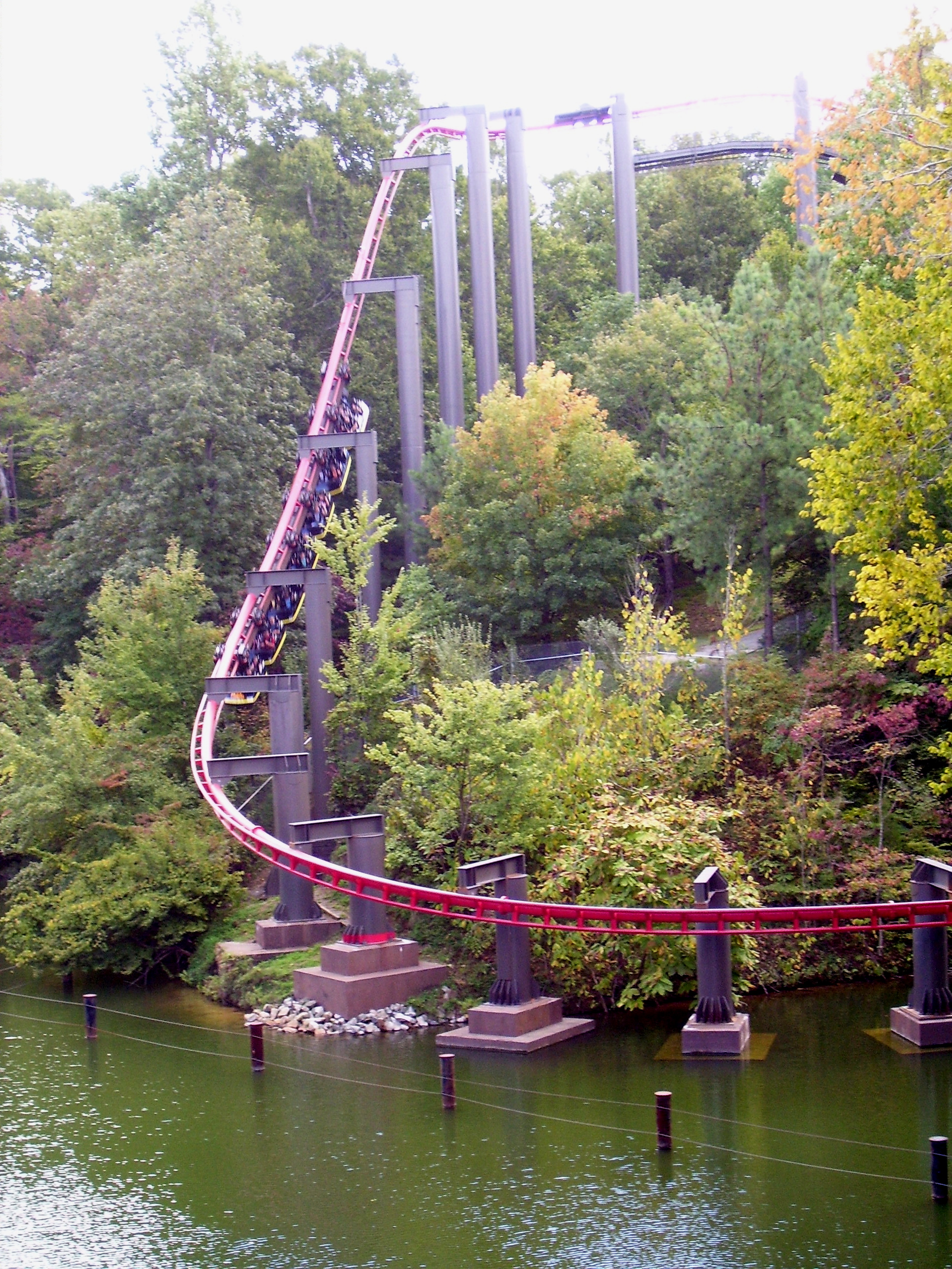 This is a picture that I took with my camera the last time I went to Busch Gardens, Europe.